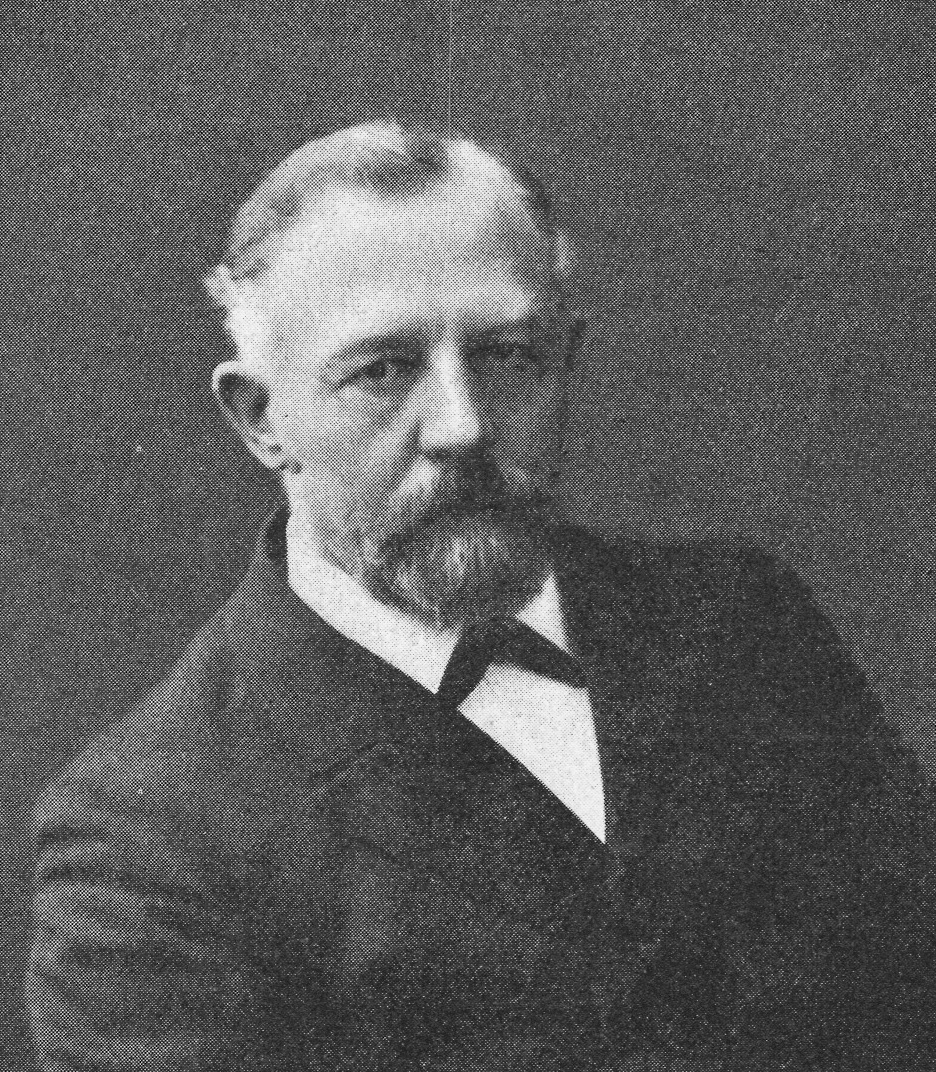 Anders Lindstedt, Swedish mathematician, actuarial scientist and civil servant, President of the Royal Institute of Technology 1902-1909